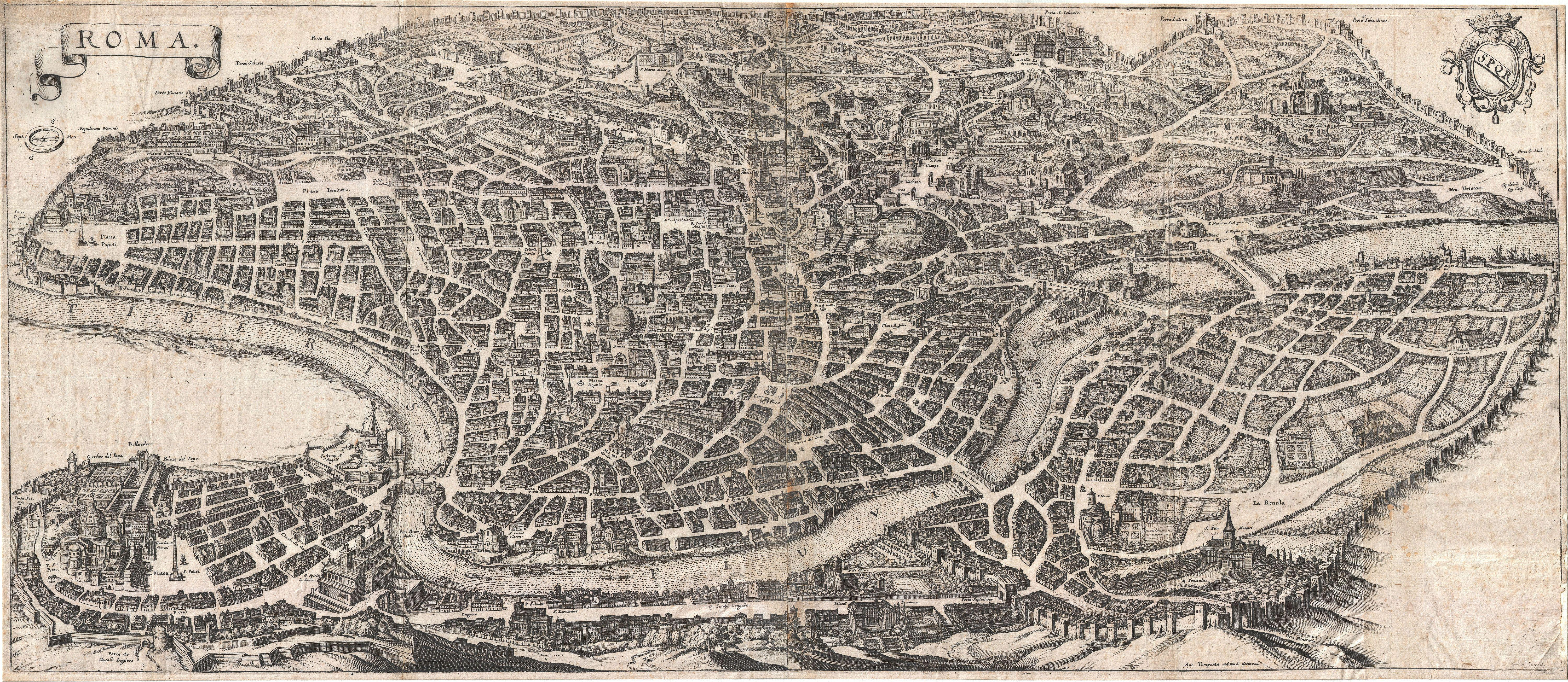 An important and stunning c. 1641 bird's eye view and map of Rome by Matthus Merian. Merian's panoramic view of Rome, based on the eastward oriented model established in 1593 by Antonio Tempesta, reveals the city at the height of the Italian Renaissance. This map follows shortly after Pope Sixtus the Fifth's ambitious civic redesign of Rome and yet predates the massive rebuilding that occurred during the Baroque Period, thus encapsulating the city during an ephemeral but significant period. The axonometric projection that Merian utilizes lends this map a special significance to historians and architects who can thus visualize many buildings that were demolished or fell into ruin during the subsequent era. The Column of Antononi the Pious, for example, is depicted in its full glory, including its magnificent base. One might suppose, from 1703 excavation records, that most of the column, including the base, was buried in the 17th century, but here full knowledge of the column's form and design are evident - a mystery. This map also includes some of the only surviving visual representations of Rome's early churches, many of which were replaced with grander structures in the 18th century. Issued for inclusion in Matthuas Merian's 1642 Topographia Germaniae . Though we can have no idea of how many of this map Merian originally printed, nor how many have survived to this day, we have identified roughly 21 examples in major institutional collections as well as, presumably, any number of additional examples in private hands.